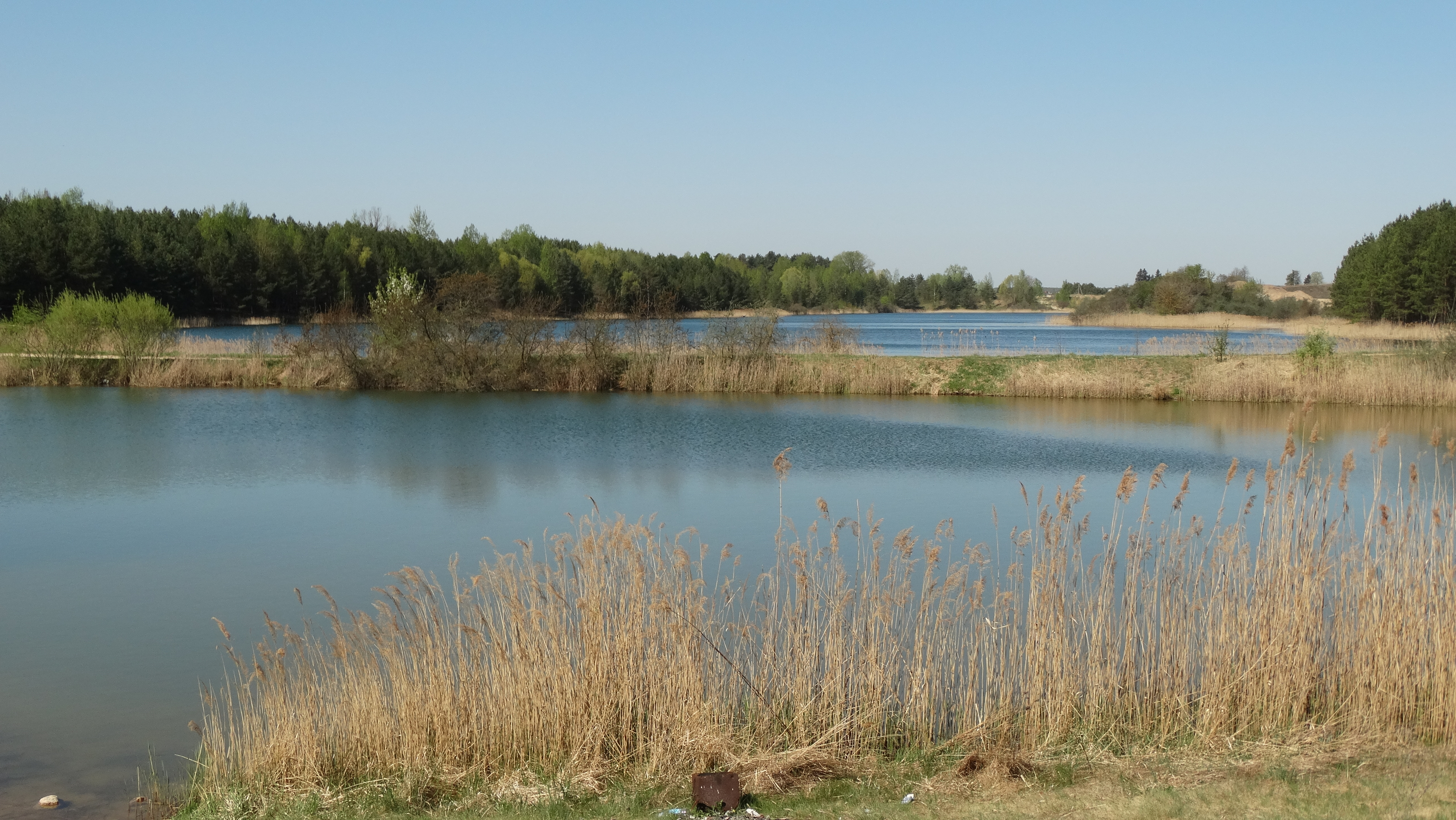 Verduliai (Radviliškis), Lithuania